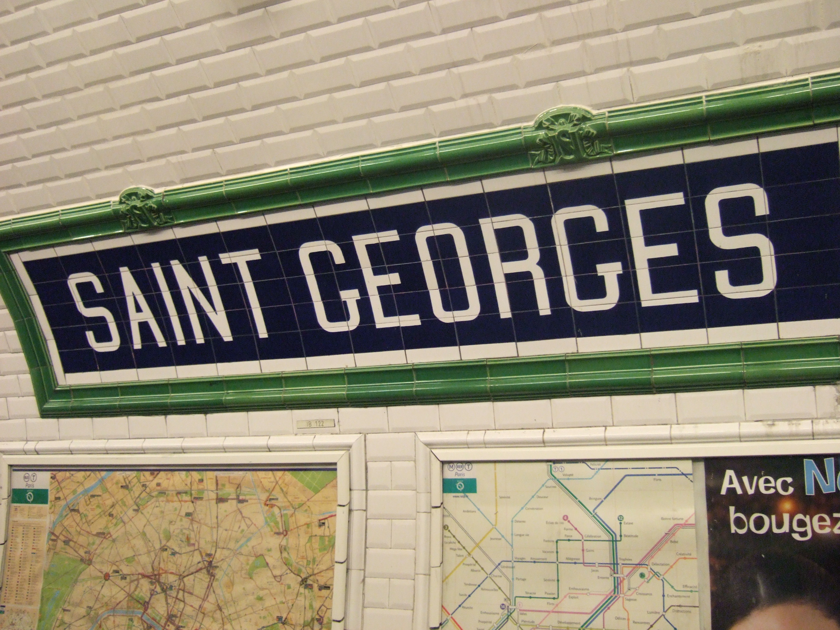 Saint-Georges sign. Glazed ceramic poster type frame with N-S logo, the line's origins with the Nord-Sud Company, later adopted at CMP stations (Compagnie du Métropolitain de Paris)